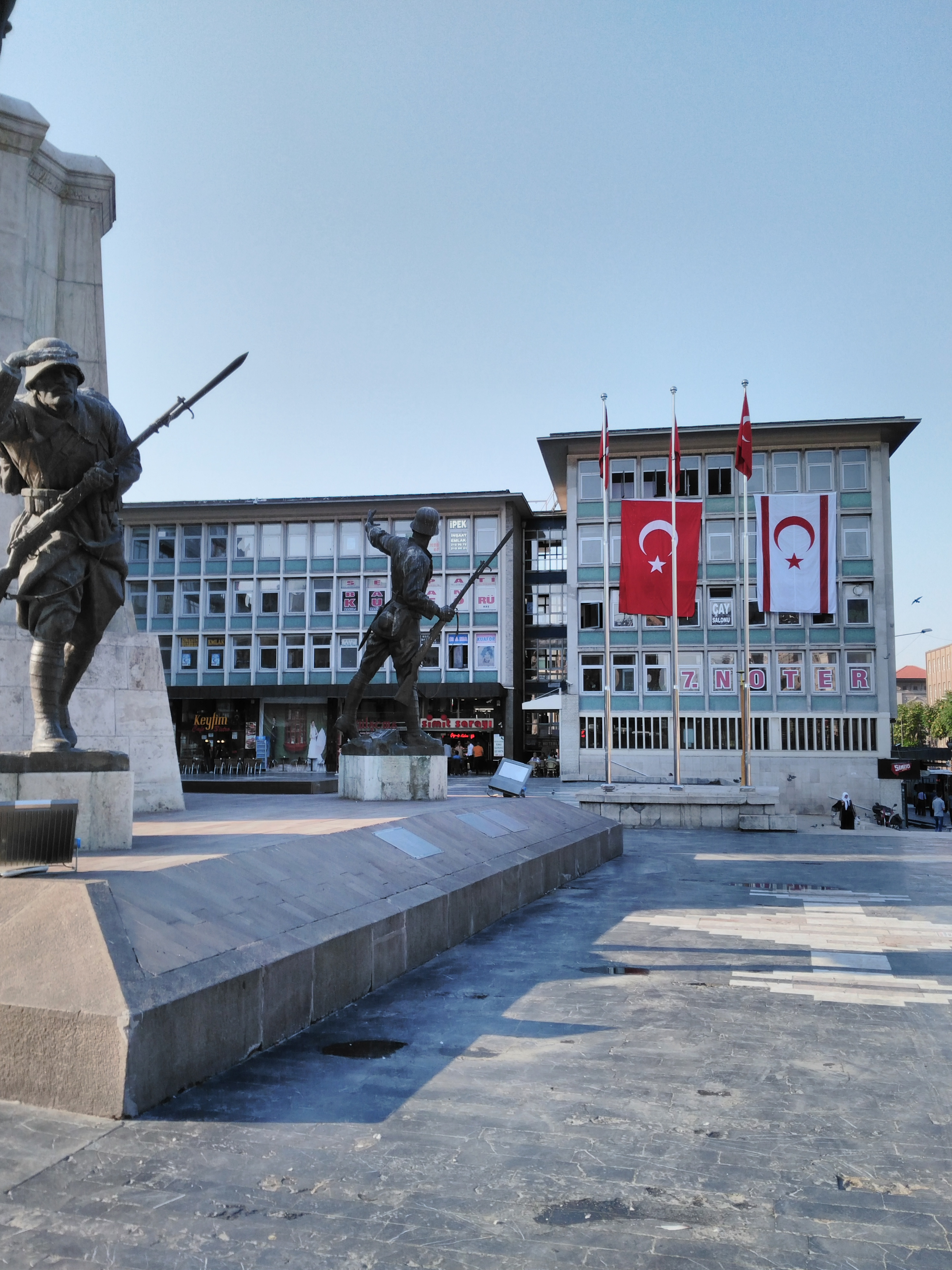 Turkey-Turkish Republic of Northern Cyprus Flags in Ankara